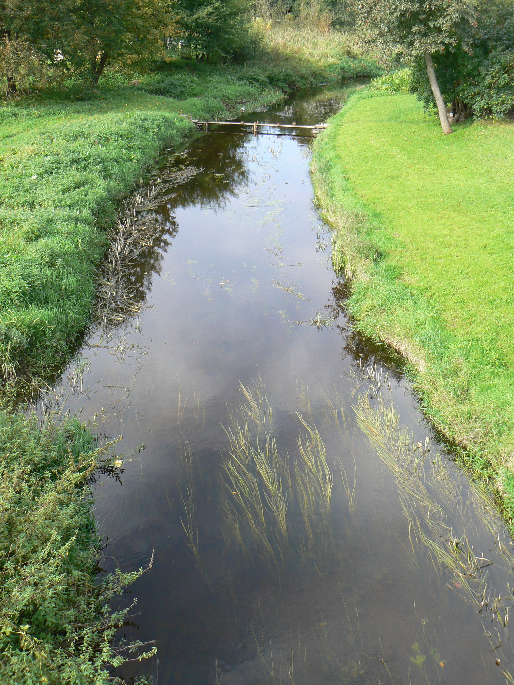 Siesartis in Šakiai